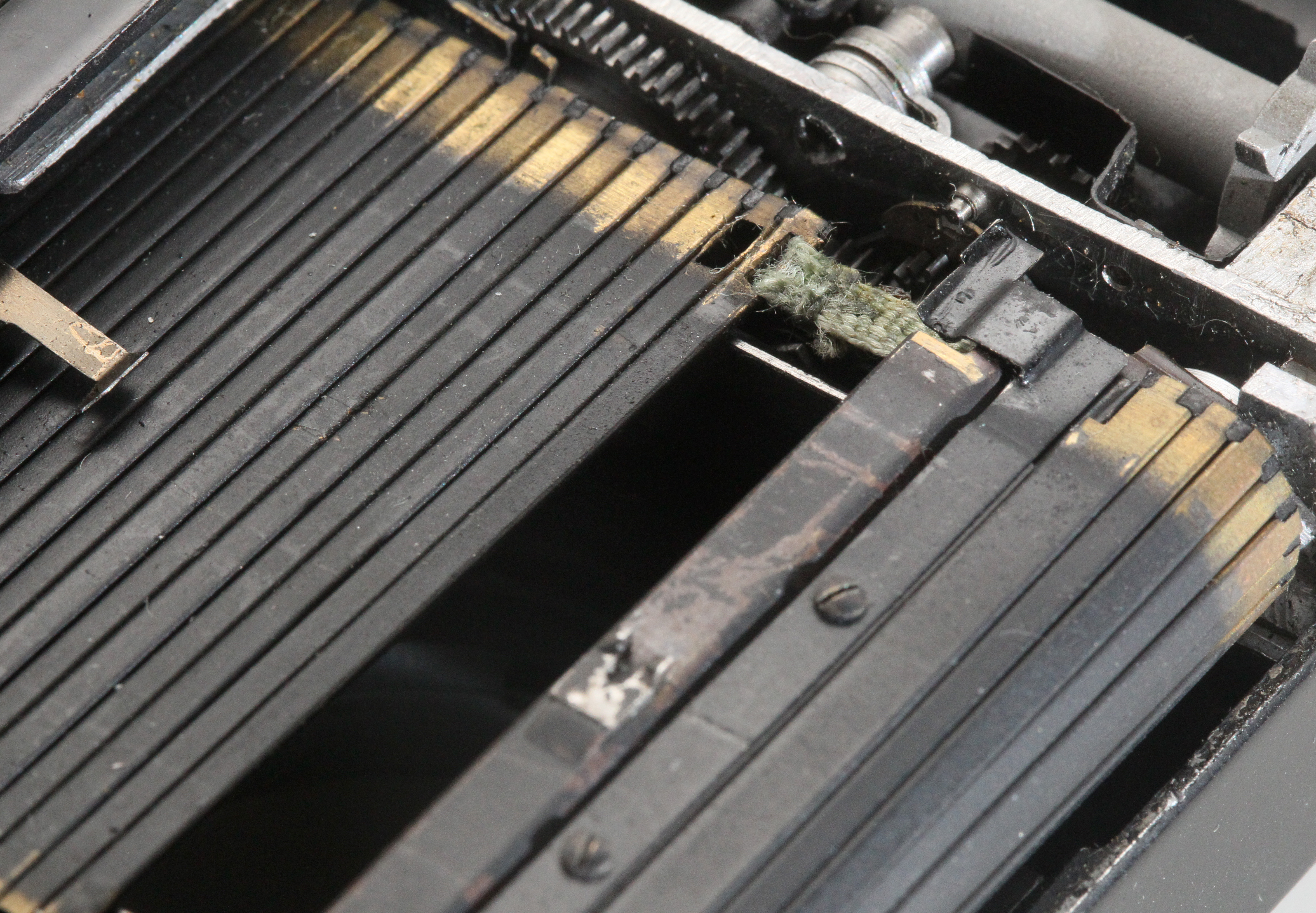 Contax-type focal-plane shutter of 'Kiev-4a' camera. Roller-shutter curtains.